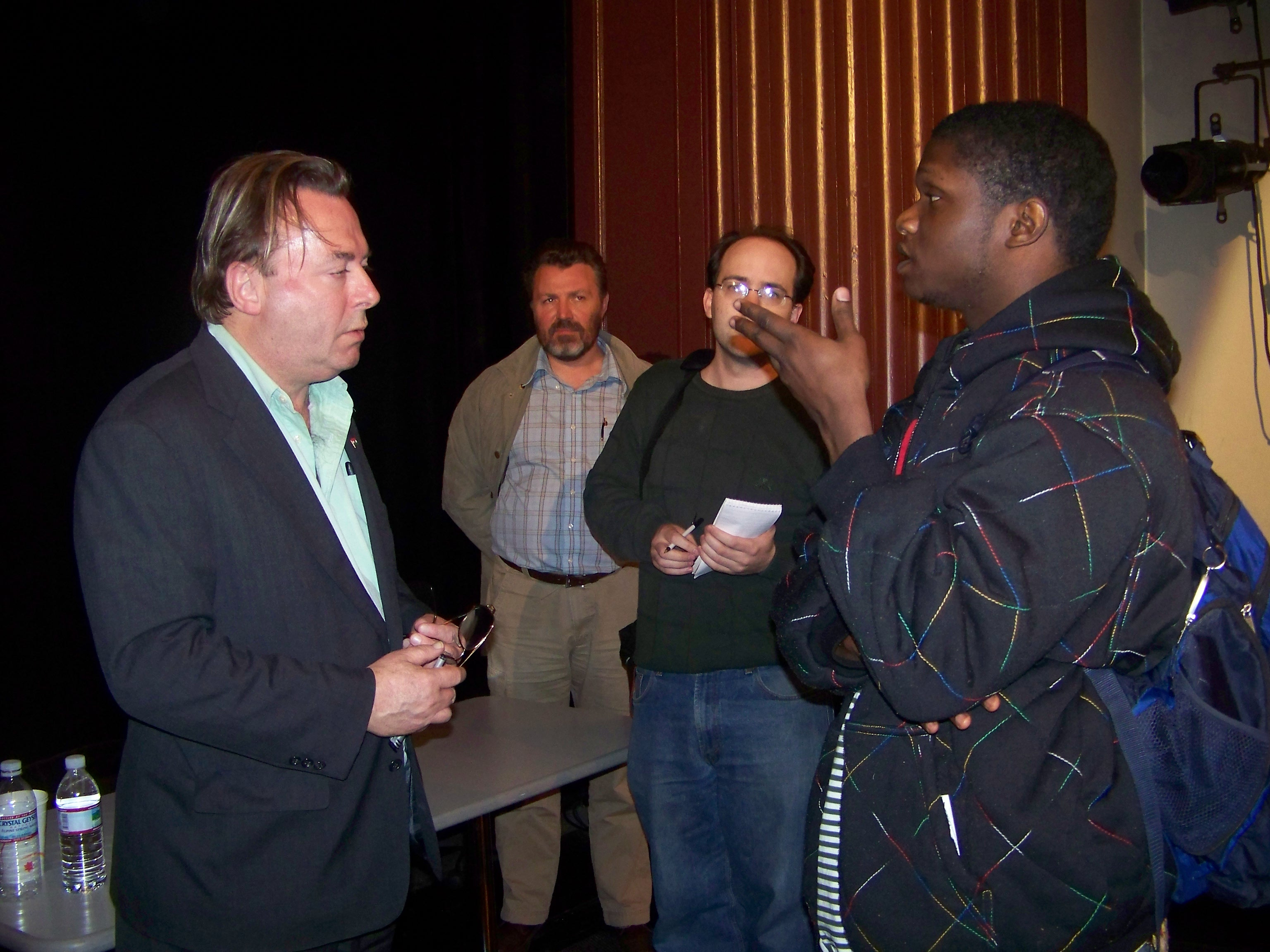 Christopher Hitchens speaks with a student after an event at The College of New Jersey.